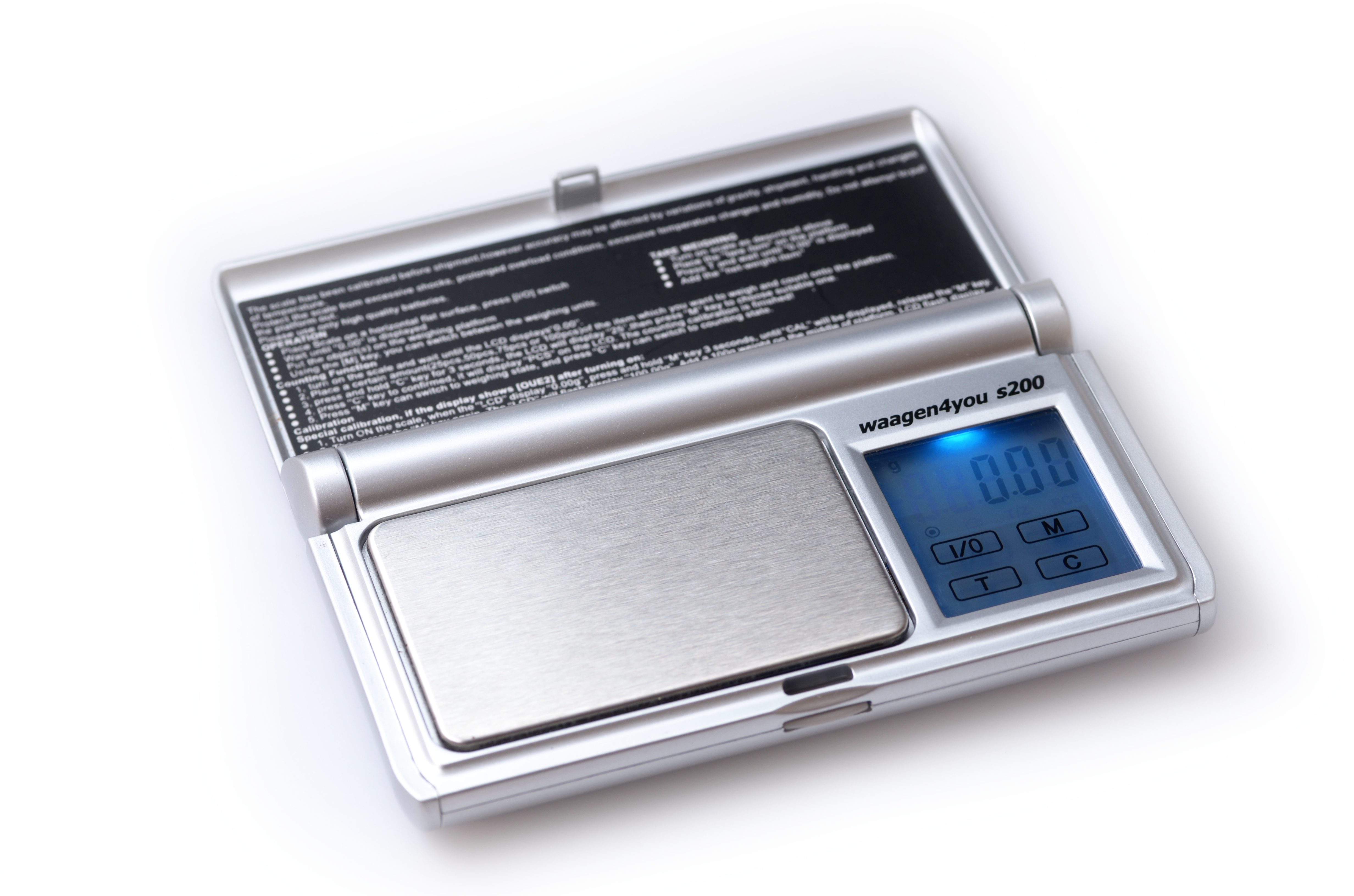 Scale weighing to 0.01 g.